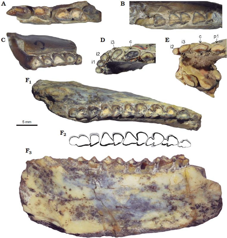 Lower dentition of Protypotherium endiadys of the Collón Curá Formation, Argentina